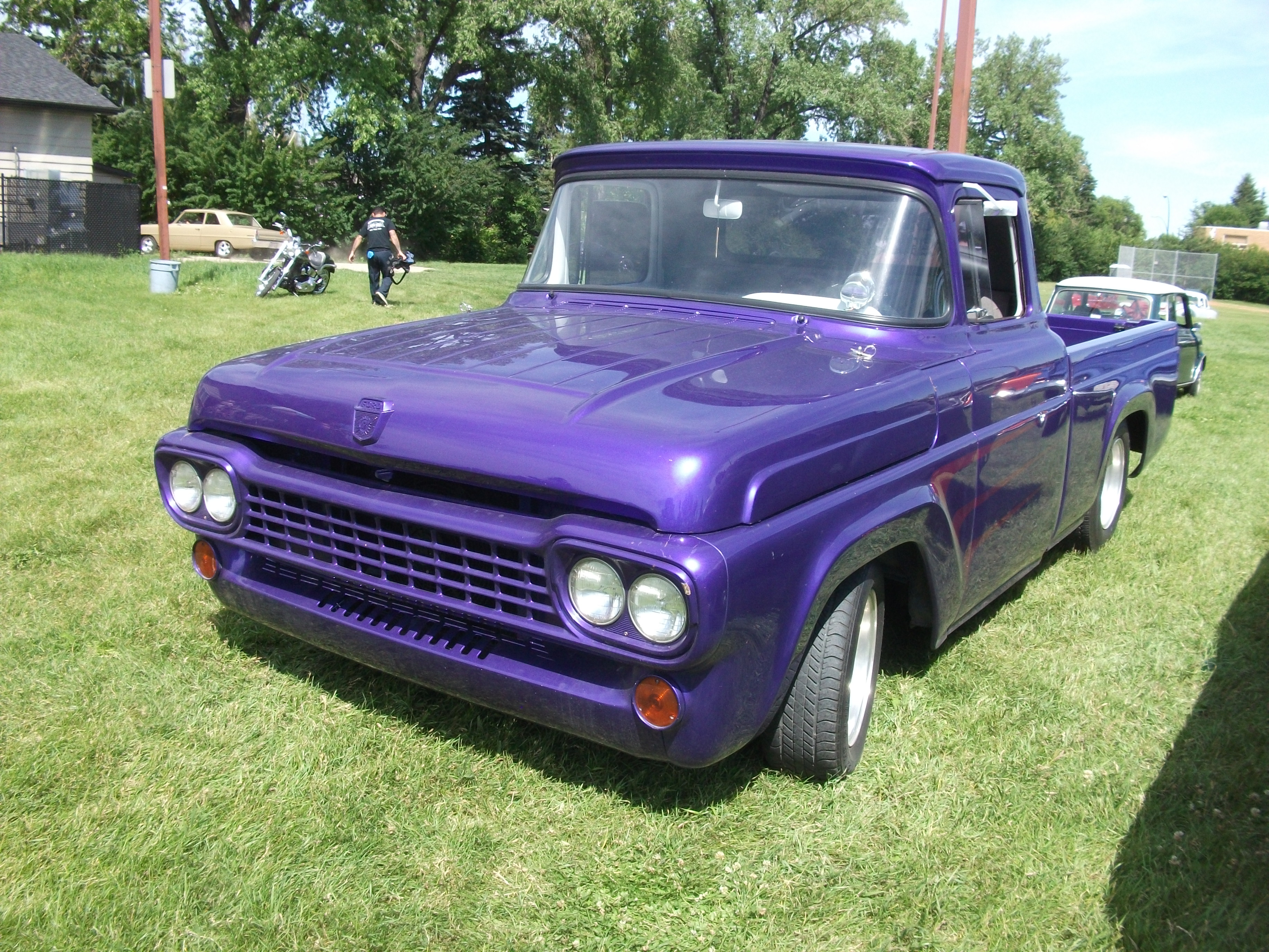 1958 Ford F-100 truck